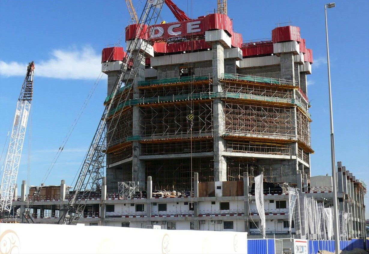 This is a photo showing the construction of 23 Marina, located in Dubai Marina in Dubai, United Arab Emirates, on 18 January 2008.